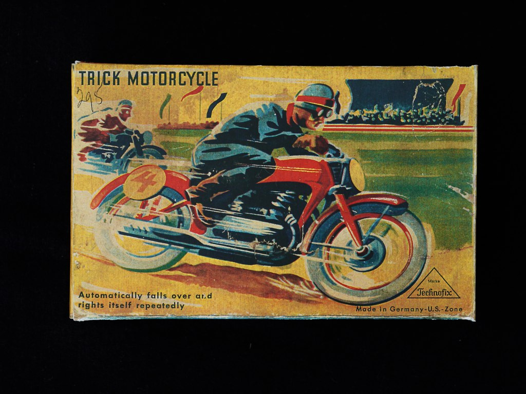 Technofix GE 255, US zone Germany 1950's